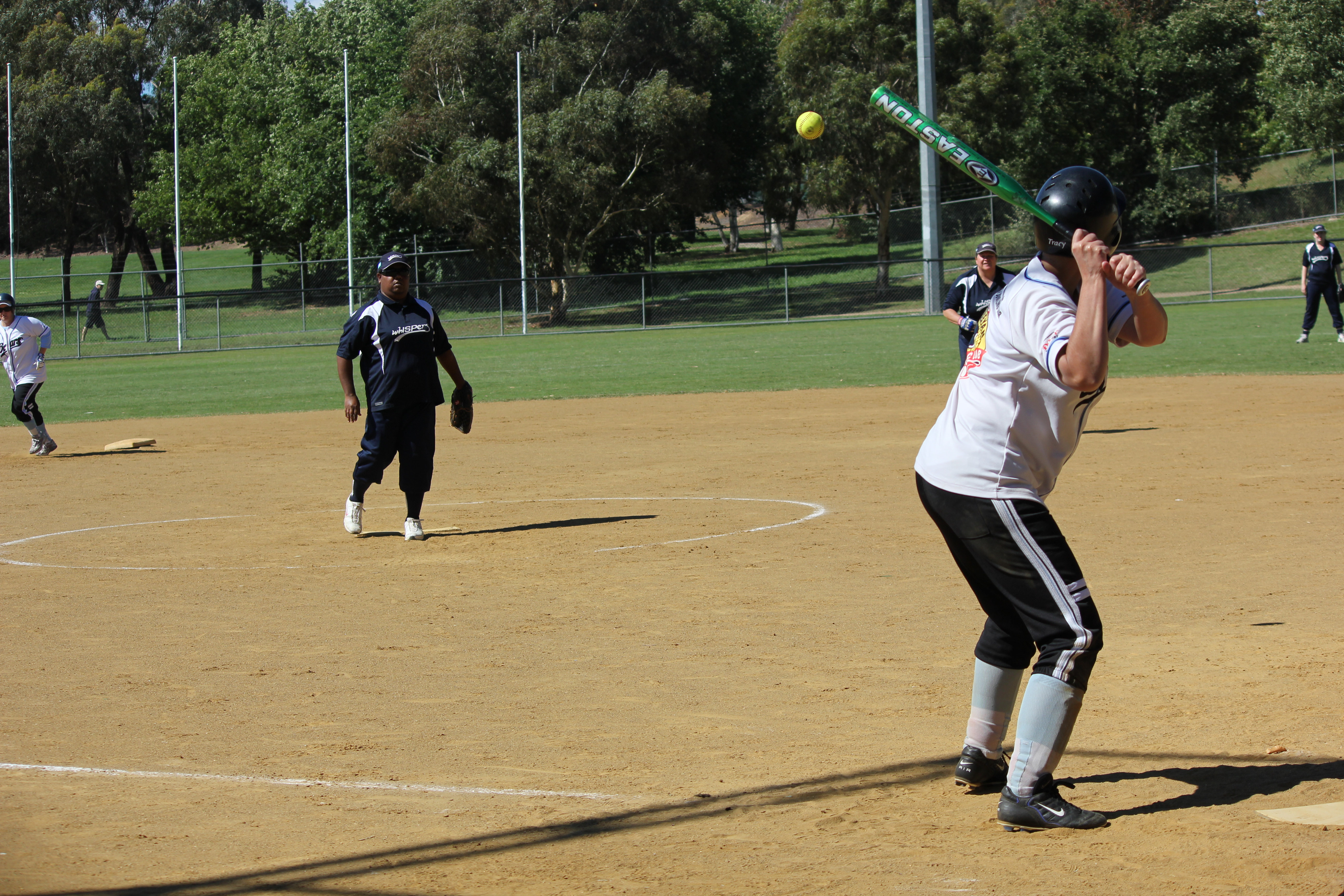 24 March 2012 club semi final between two Canberra teams.